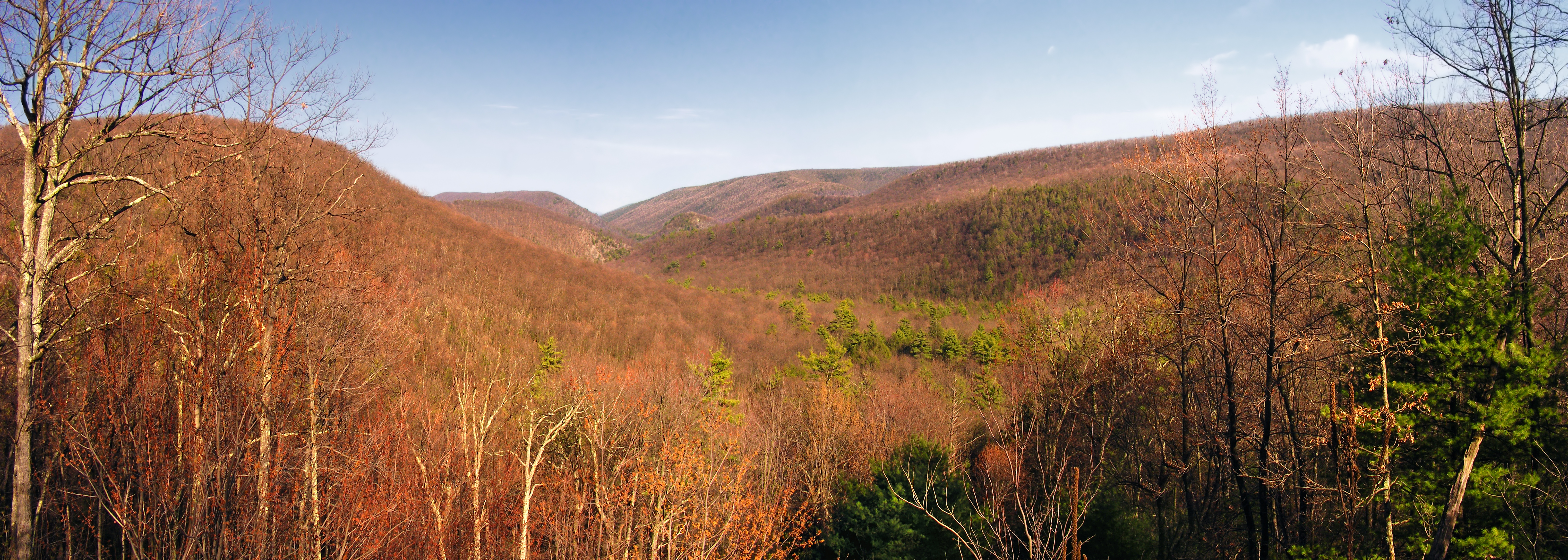 East-to-northeast vista from Pine Swamp Road, Bald Eagle State Forest, Centre County, Pennsylvania